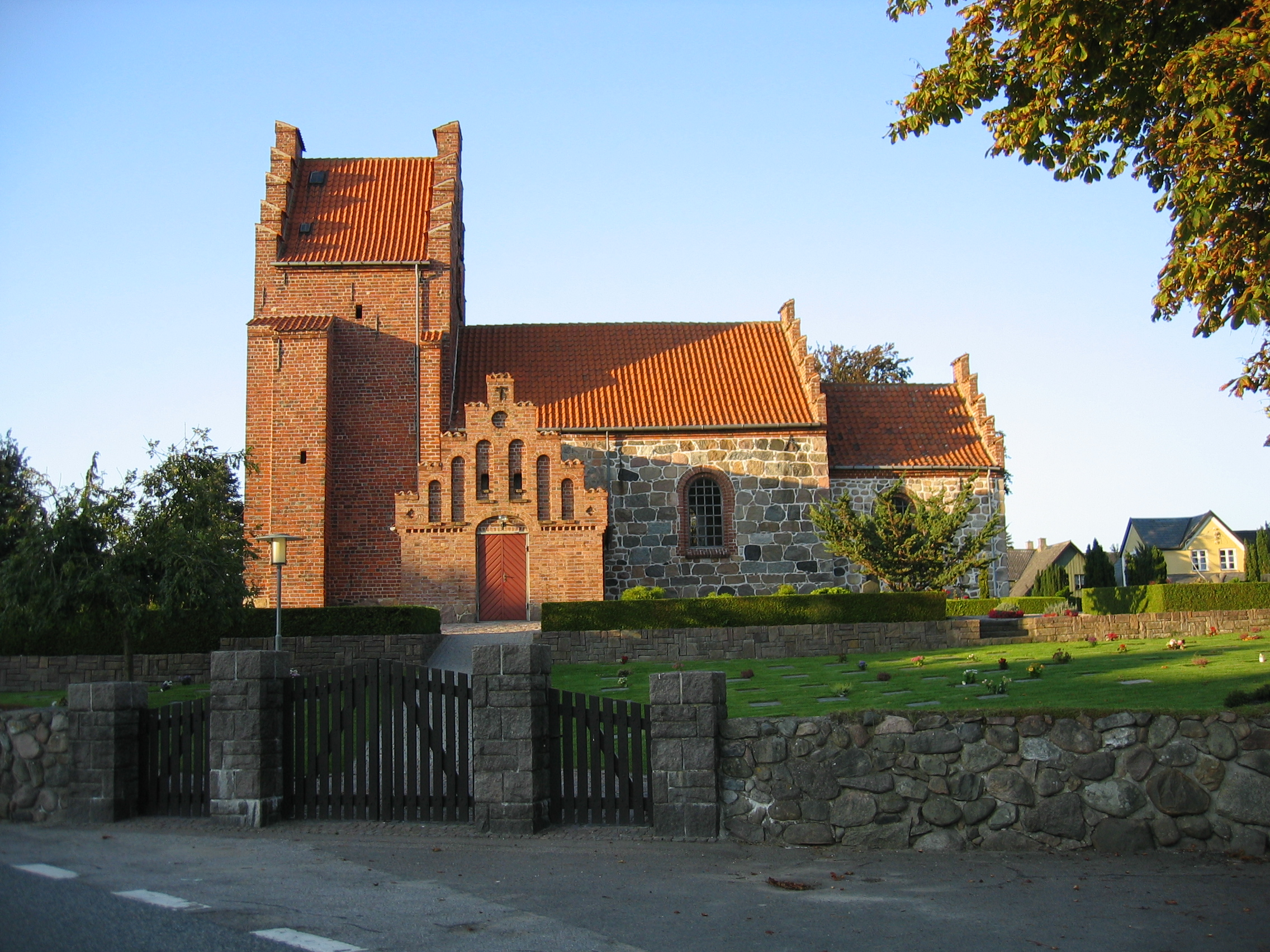 Blovstrød Church, Blovstrød parish, Lynge-Kronborg Herred, Frederiksborg County, Denmark.